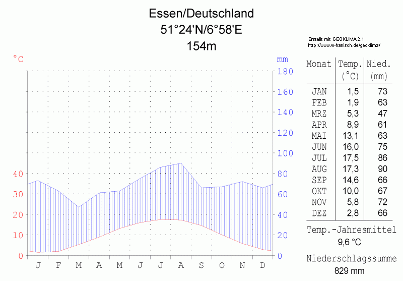 climate chart in the format by Walther and Lieth, metric, °Celsisus and millimeters, made with Geoklima 2.1